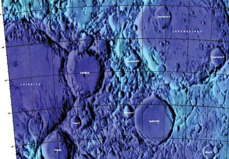 Color-coded topography LAC 120 image from USGS Digital Atlas.